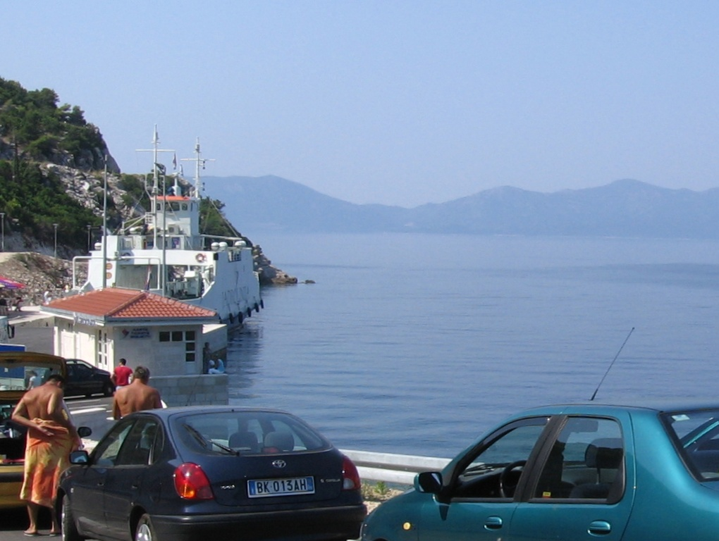 Prapratno, Croatia - ferry harbour